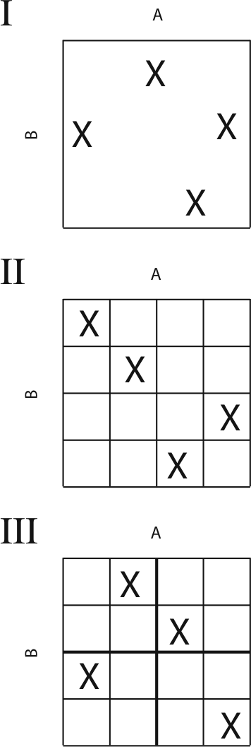 Latin hypercube sampling: This is a simplistic figure I drew to explain the difference between I) random sampling, II) Latin Hypercube Sampling (LHS) and III) Orthogonal Sampling